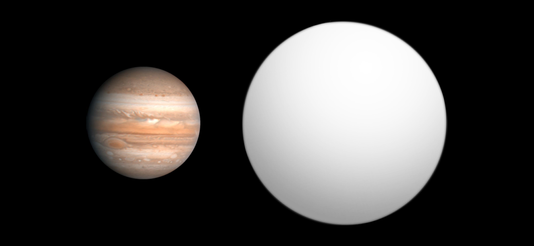 Comparison of best-fit size of the exoplanet GQ Lupi b with the Solar System planet Jupiter, as reported in the Extrasolar Planets Encyclopaedia[1] as of 2010-10-03. ↑ Extrasolar Planets Encyclopaedia (2010-09-30). Retrieved on 2010-10-03.